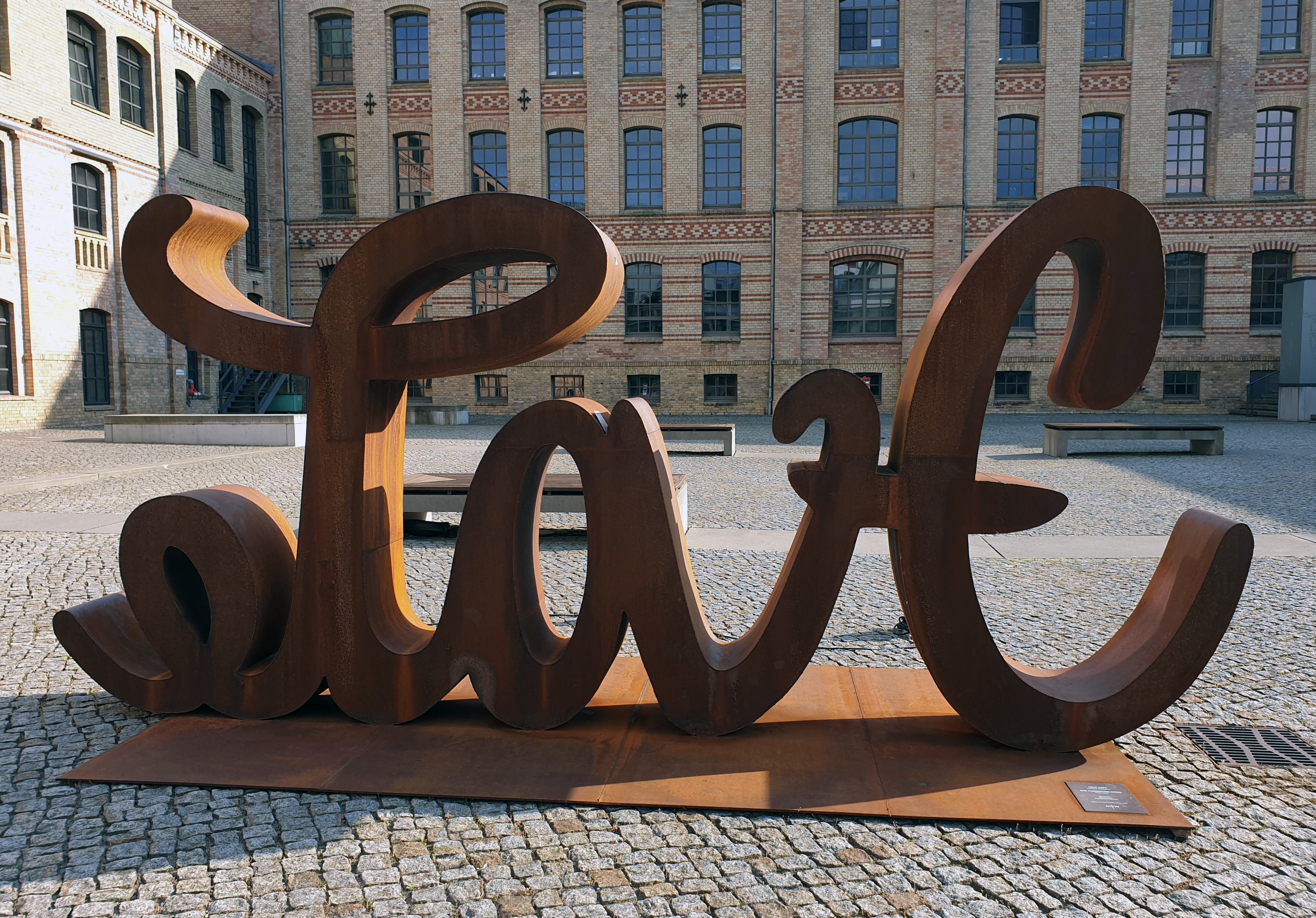 Sculpture,"Love Hate" by Mia Florentine Weiss, 2019, Wegelystraße 1, Berlin-Charlottenburg, Germany